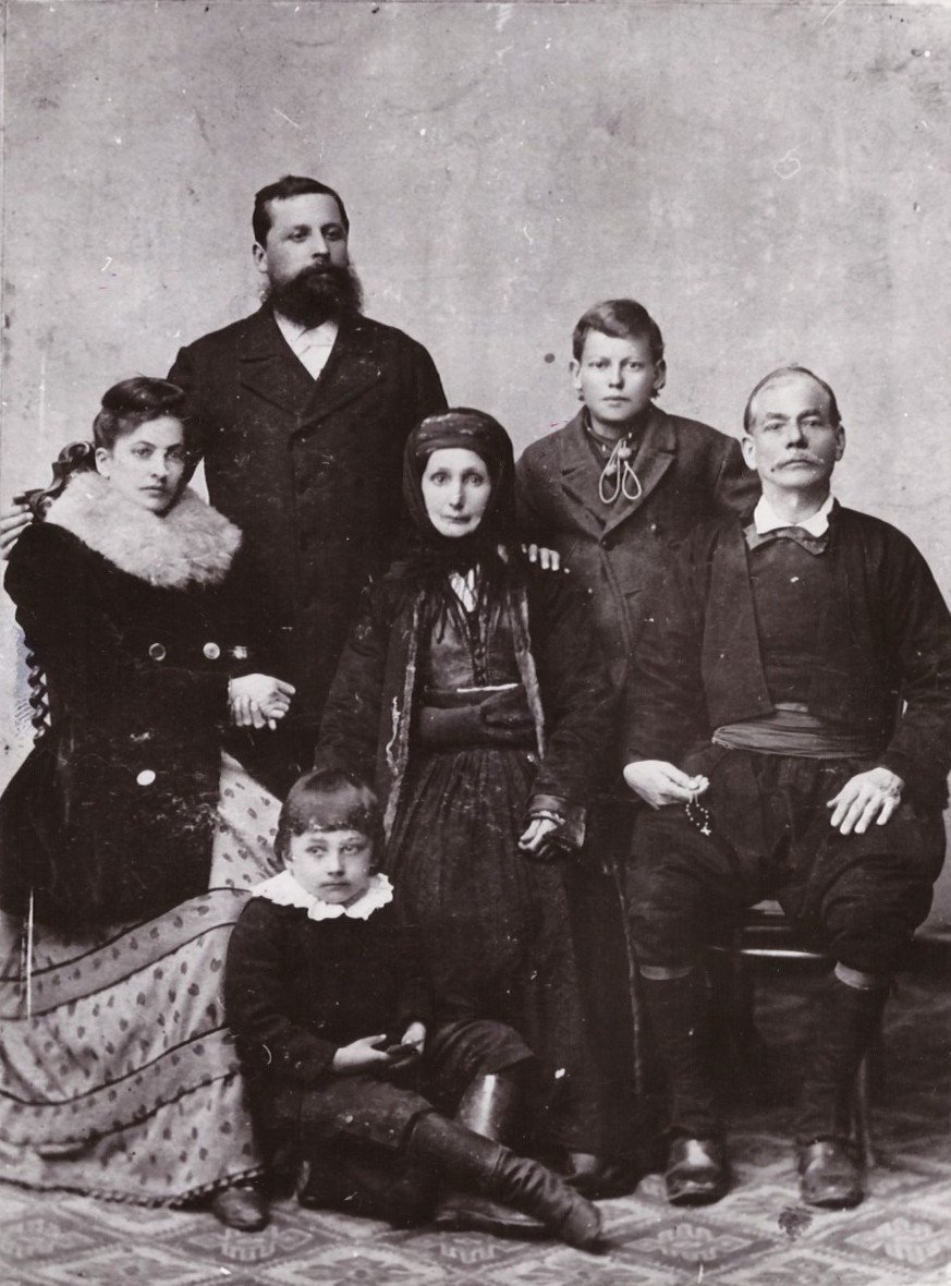 Georgi_and_Anna_Kandilarov_with_Family.